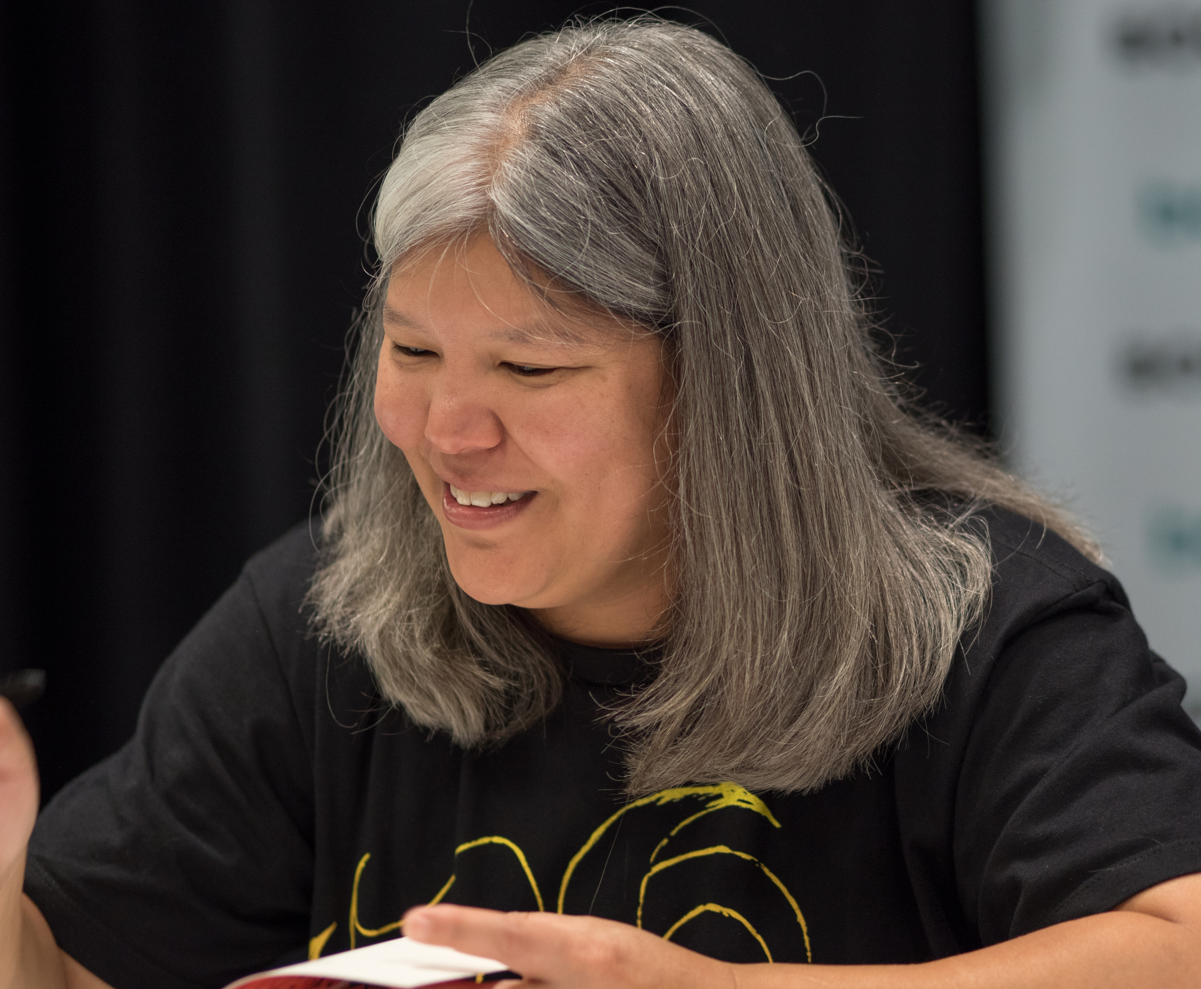 Julie Kagawa BookExpo America 2018 at the Javits Convention Center in New York City.